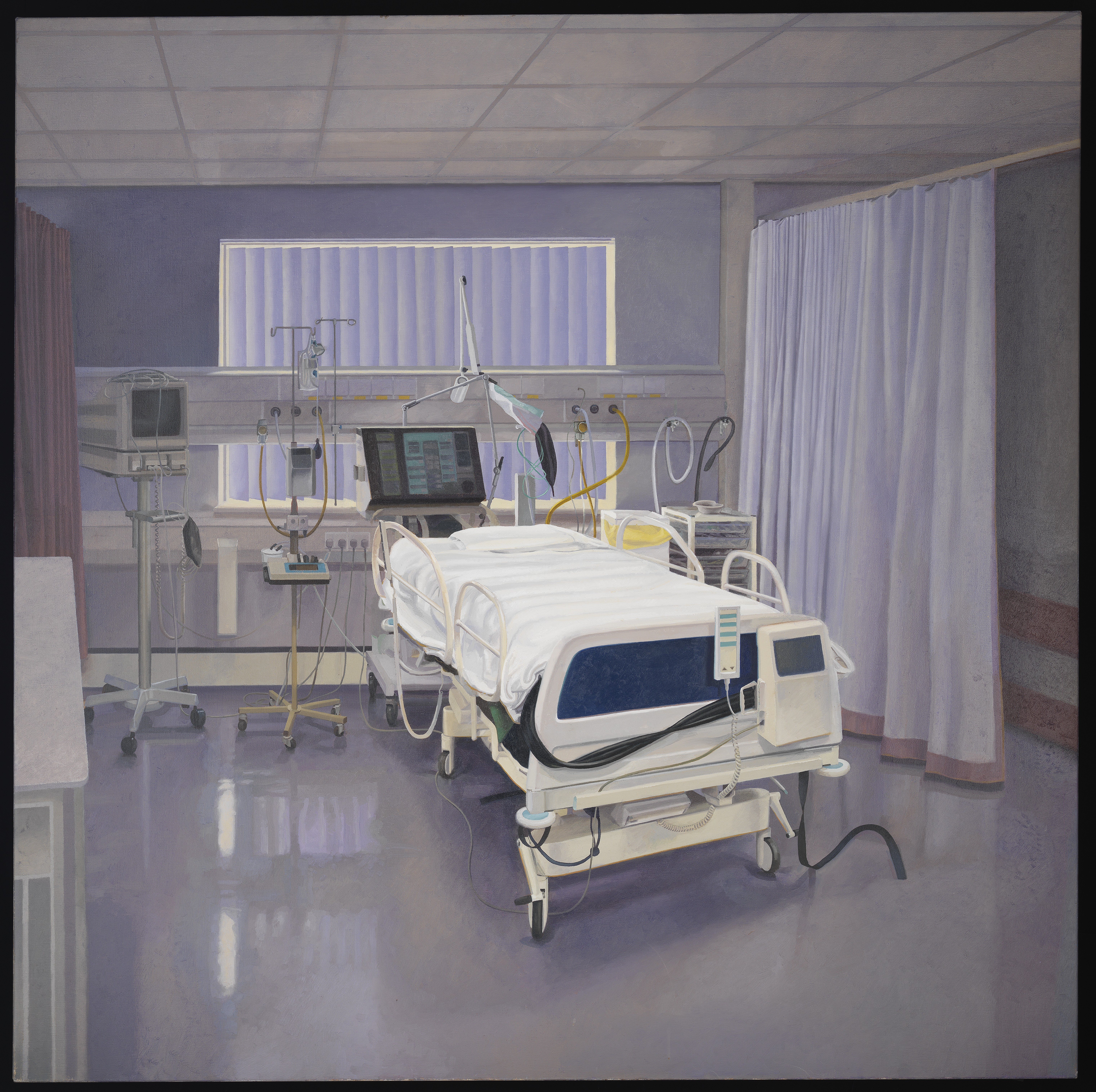 An intensive care unit in a hospital. Oil painting by R. Priseman, 2004. One painting in series of eight very detailed records of contemporary hospital environments (corridors, mortuaries, shower rooms, and intensive care units for babies and adults) painted by Robert Priseman in 2004-2005. Iconographic Collections Keywords: Paintings; Robert. Priseman; Critical Care; Beds; Intensive Care Units; Hospitals; Intensive Care